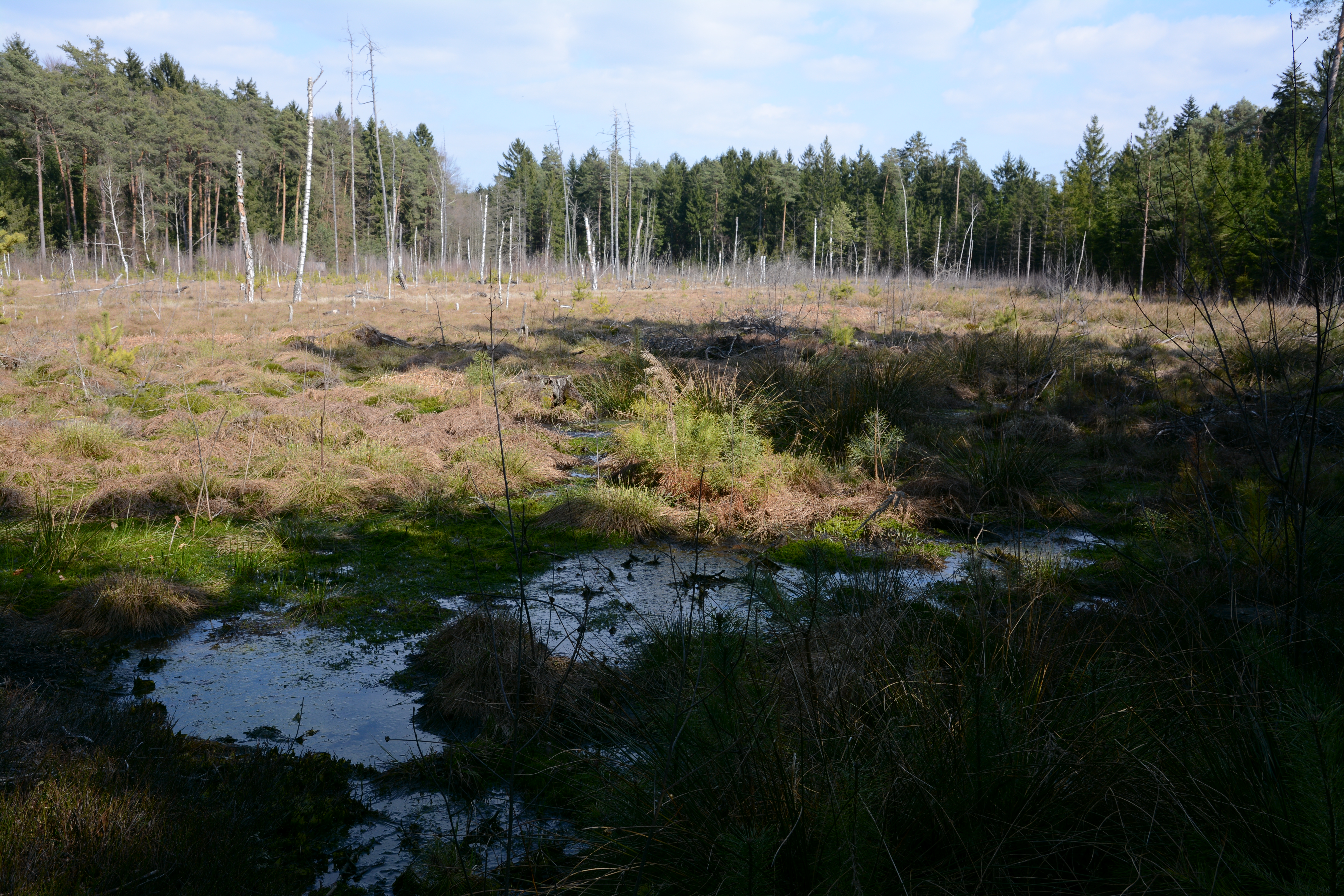 Lichtenwalder Moor